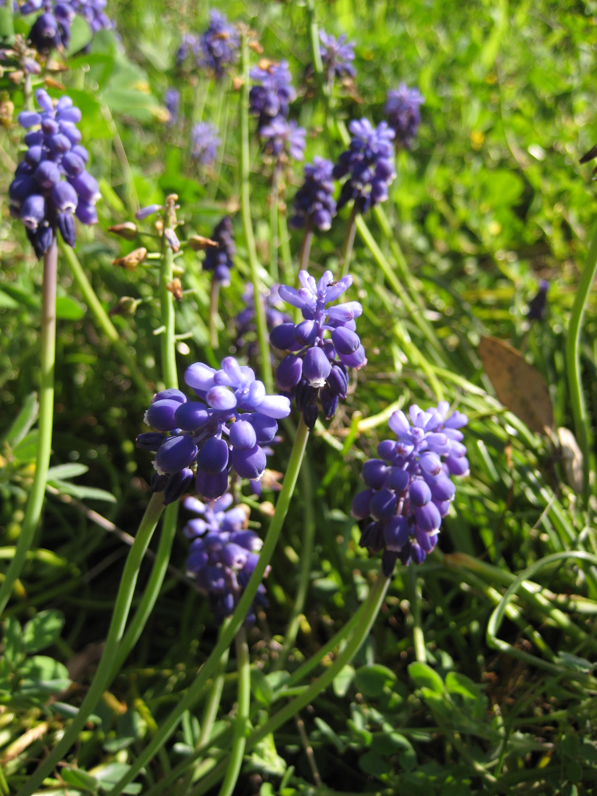 Muscari botryoides or commonly known as Grape Hyacinth